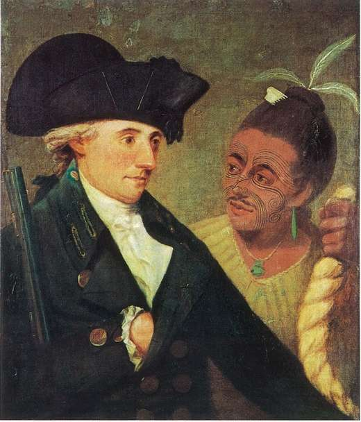 Portrait of Captain Clerke in Government House, Wellington, New Zealand , by Nathaniel Dance, 1776